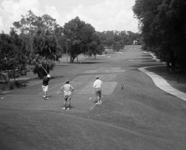 Description Mark Bostic Golf Course - photo cropped to get a good view of course Date27 January 2007SourceFlickrAuthorcracklow's faux toes from Gainesville, FloridaPermission (Reusing this file) Creative Commons Share Alike 2.0 Mark Bostic Golf Course - photo cropped to get a good view of course